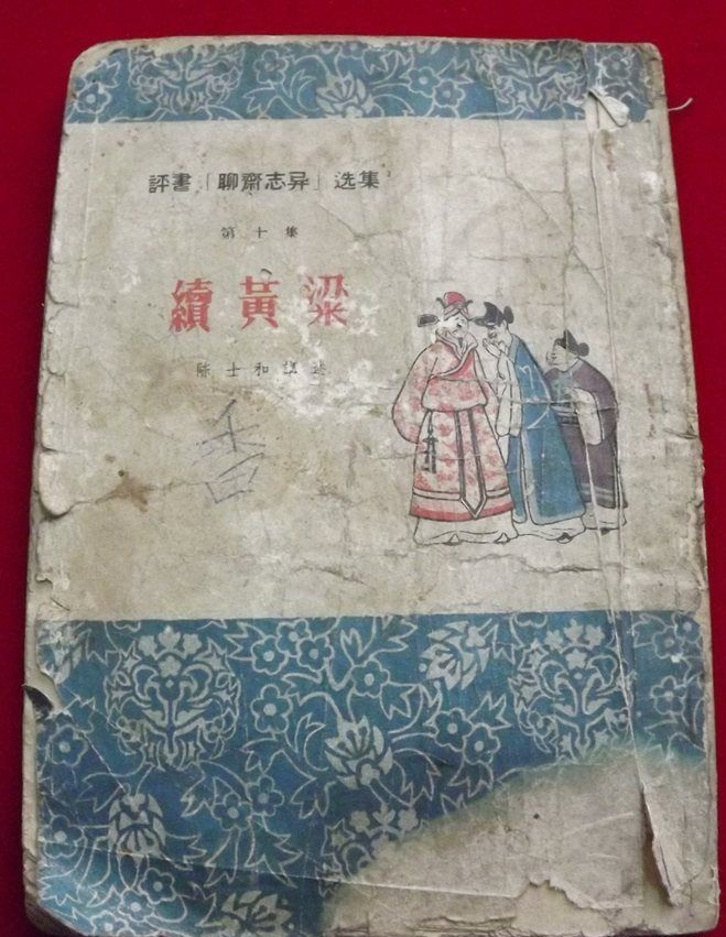 Cover of Xu Huangliang ("A Sequel to the Yellow Millet Dream"), volume 10 of the 1957 publication of Strange Tales from a Chinese Studio